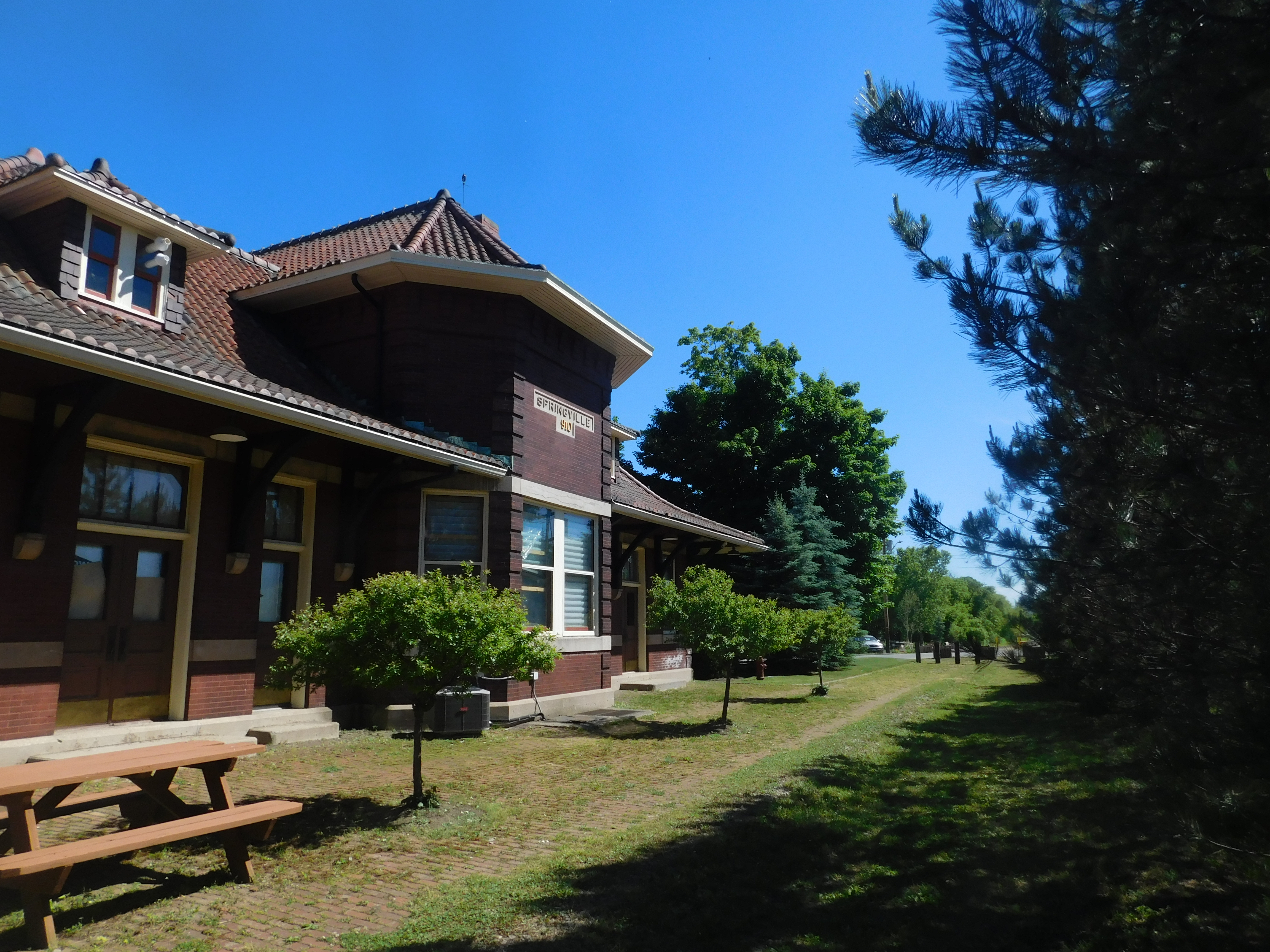 Springville, New York's Buffalo, Rochester and Pittsburgh Railroad station in June 2016.